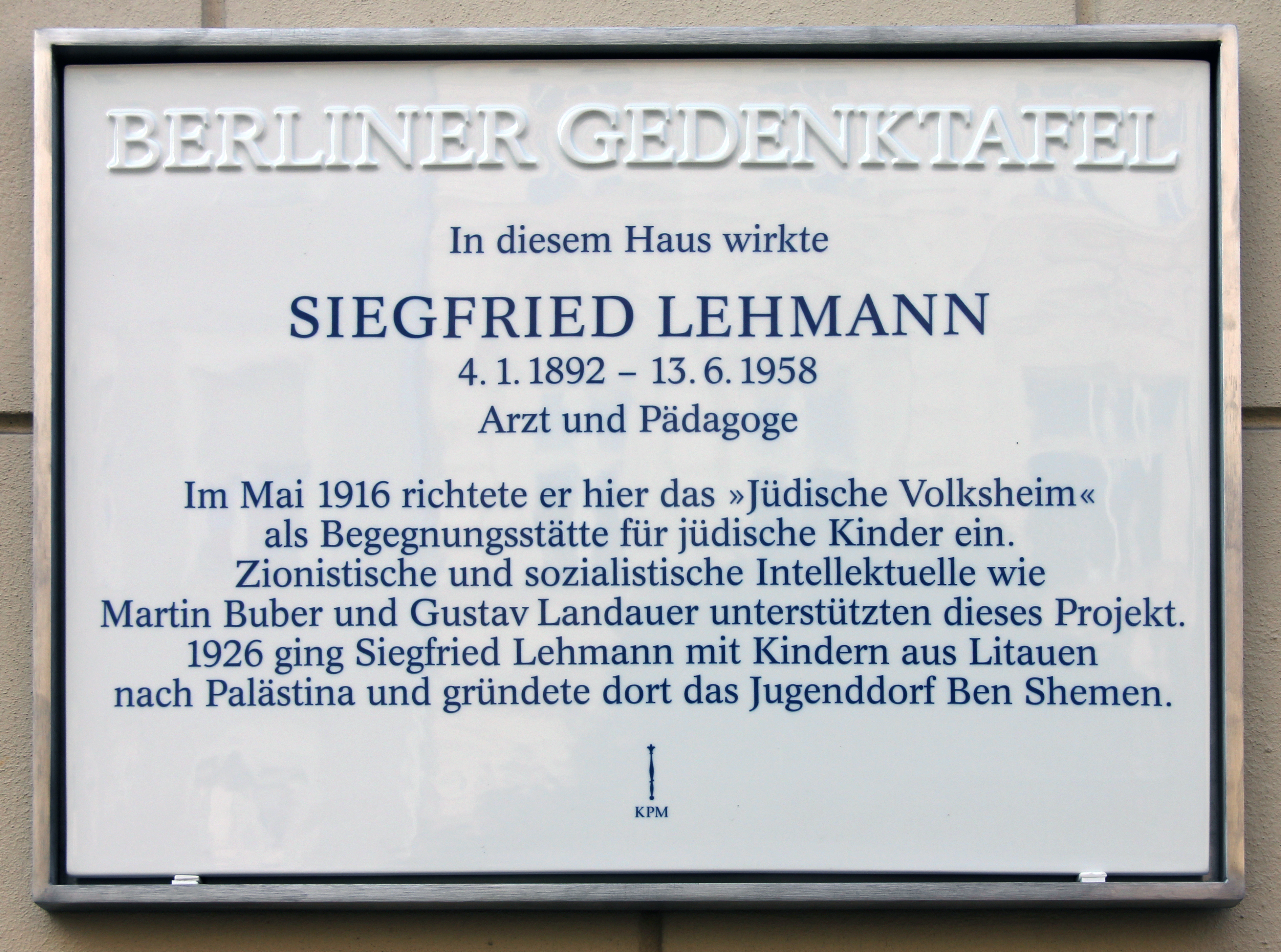 Berlin memorial plaque, Siegfried Lehmann, Max-Beer-Straße 5, Berlin-Mitte, Germany